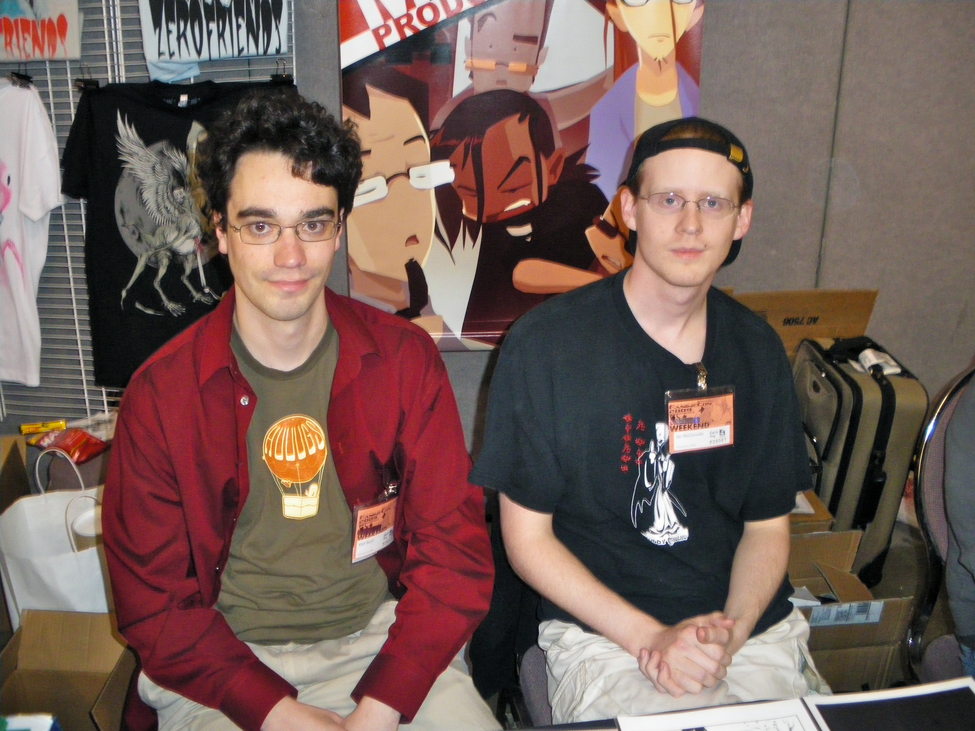 Matt Boyd and Ian McConville (Mac Hall and Three Panel Soul at FanimeCon 2009.